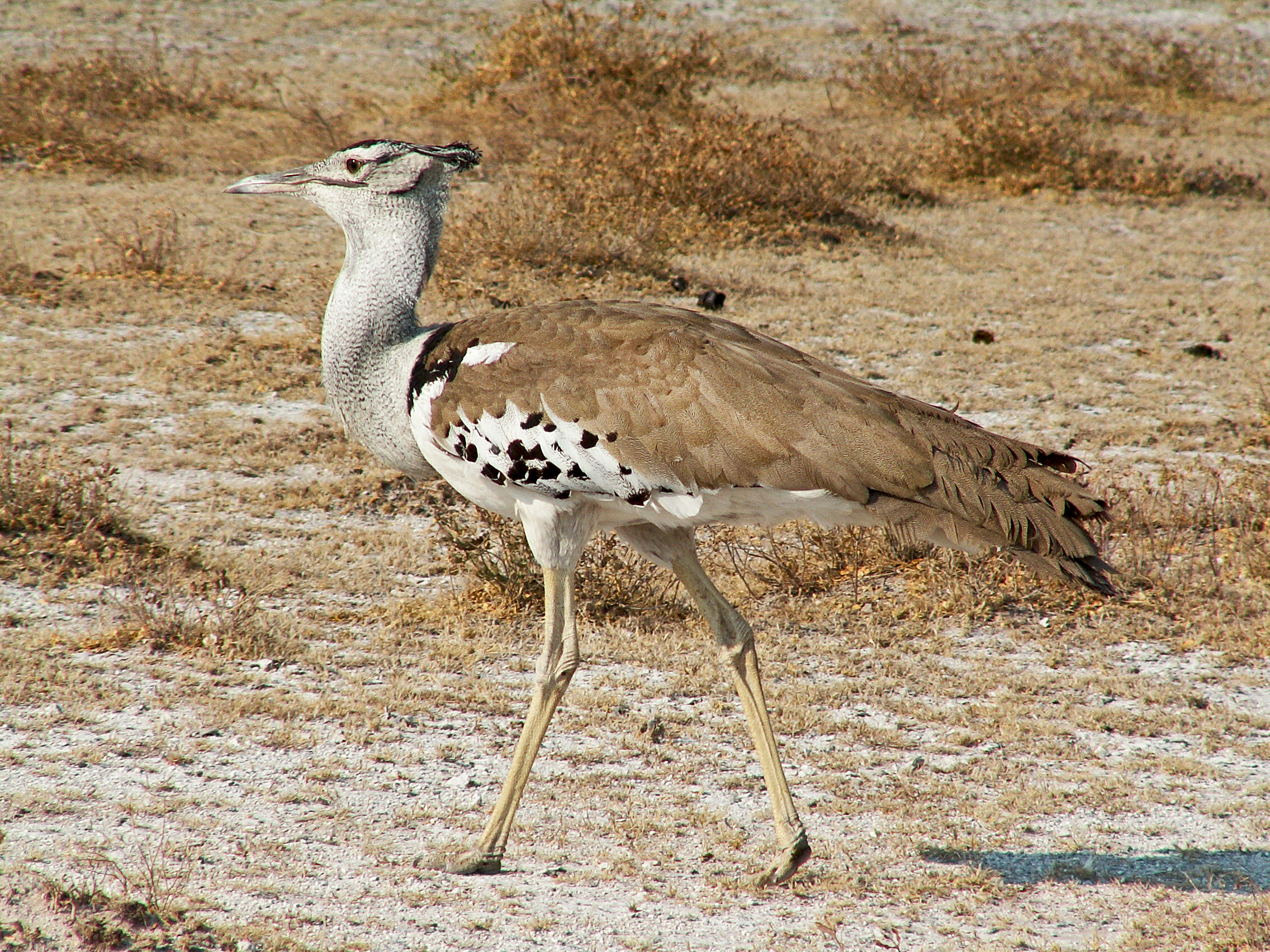 Kori Bustard Ardeotis kori Burchell, Etosha National park, Namibia